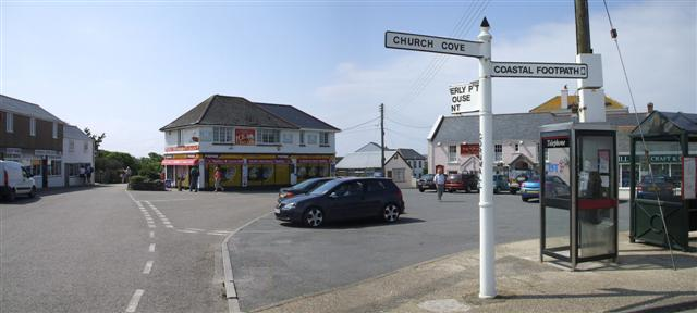 Lizard Point Village Part of the direction sign has broken off.